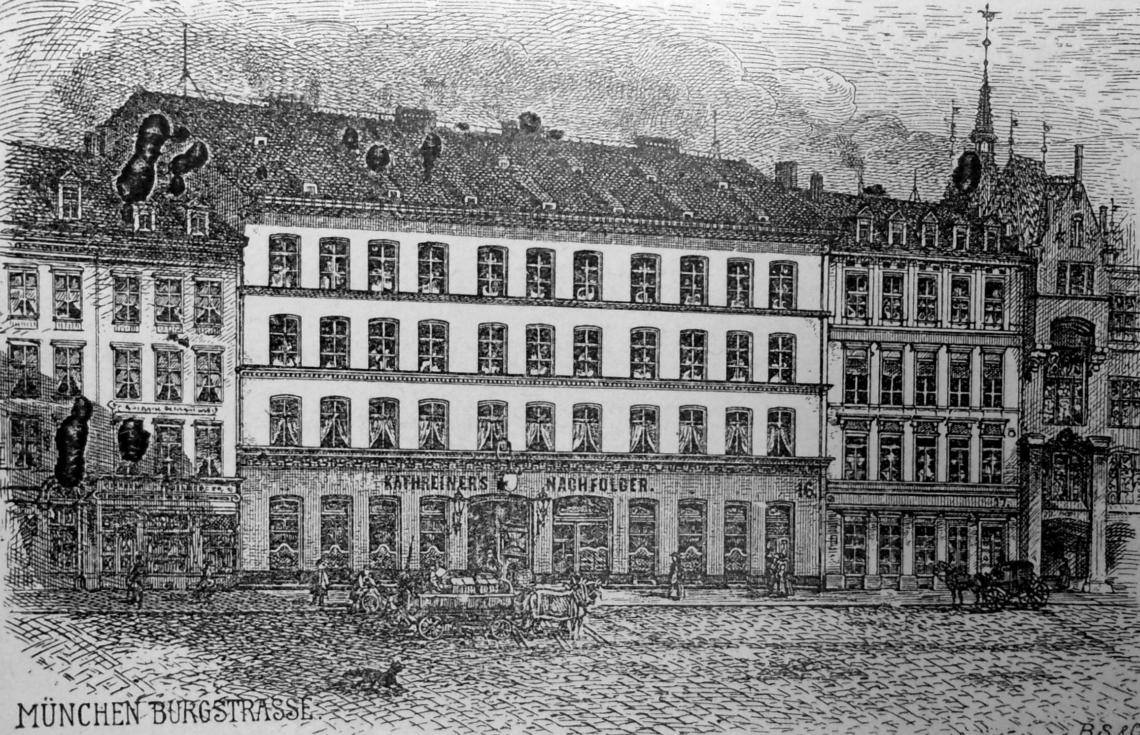 original location of the firm at Burgstraße, Munich